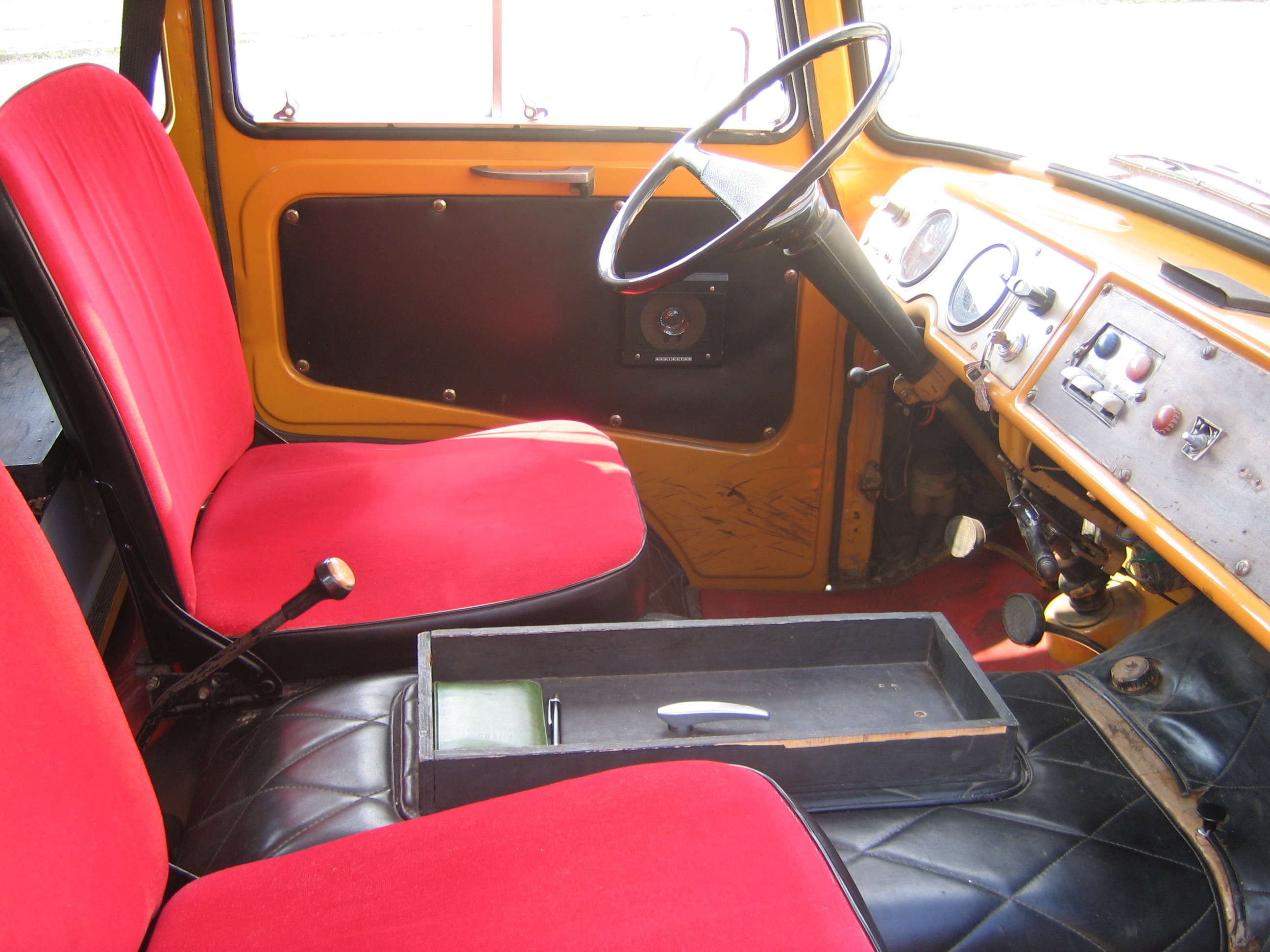 Barkas B1000 inside